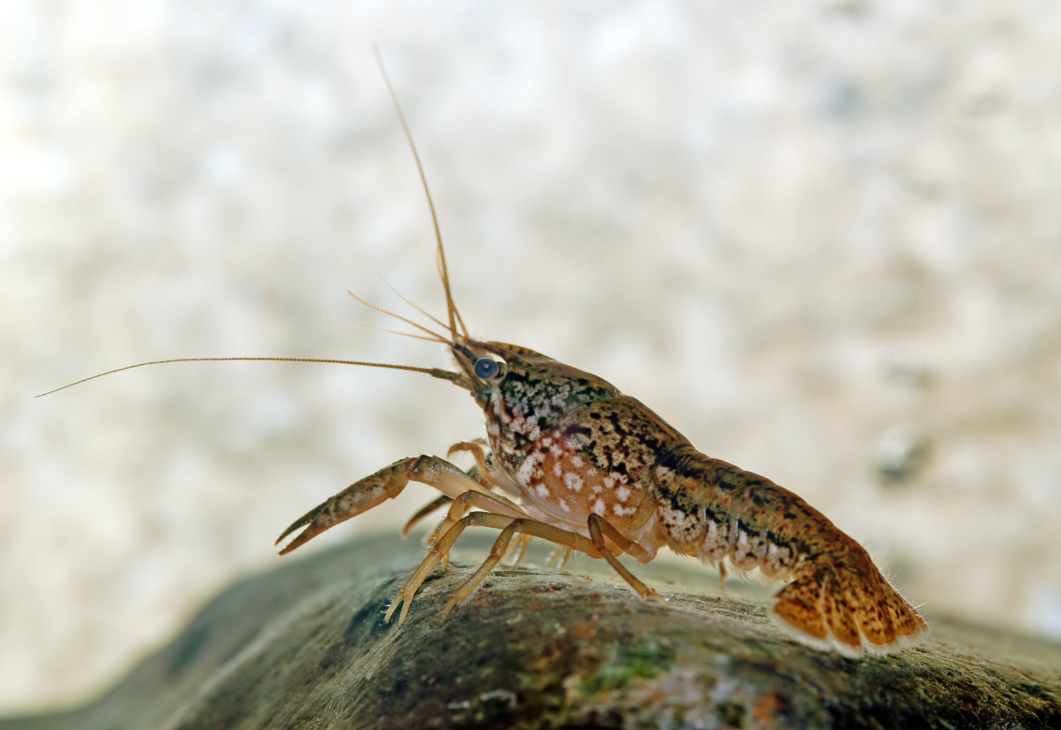 This image shows a crayfish of the genus Procambarus.